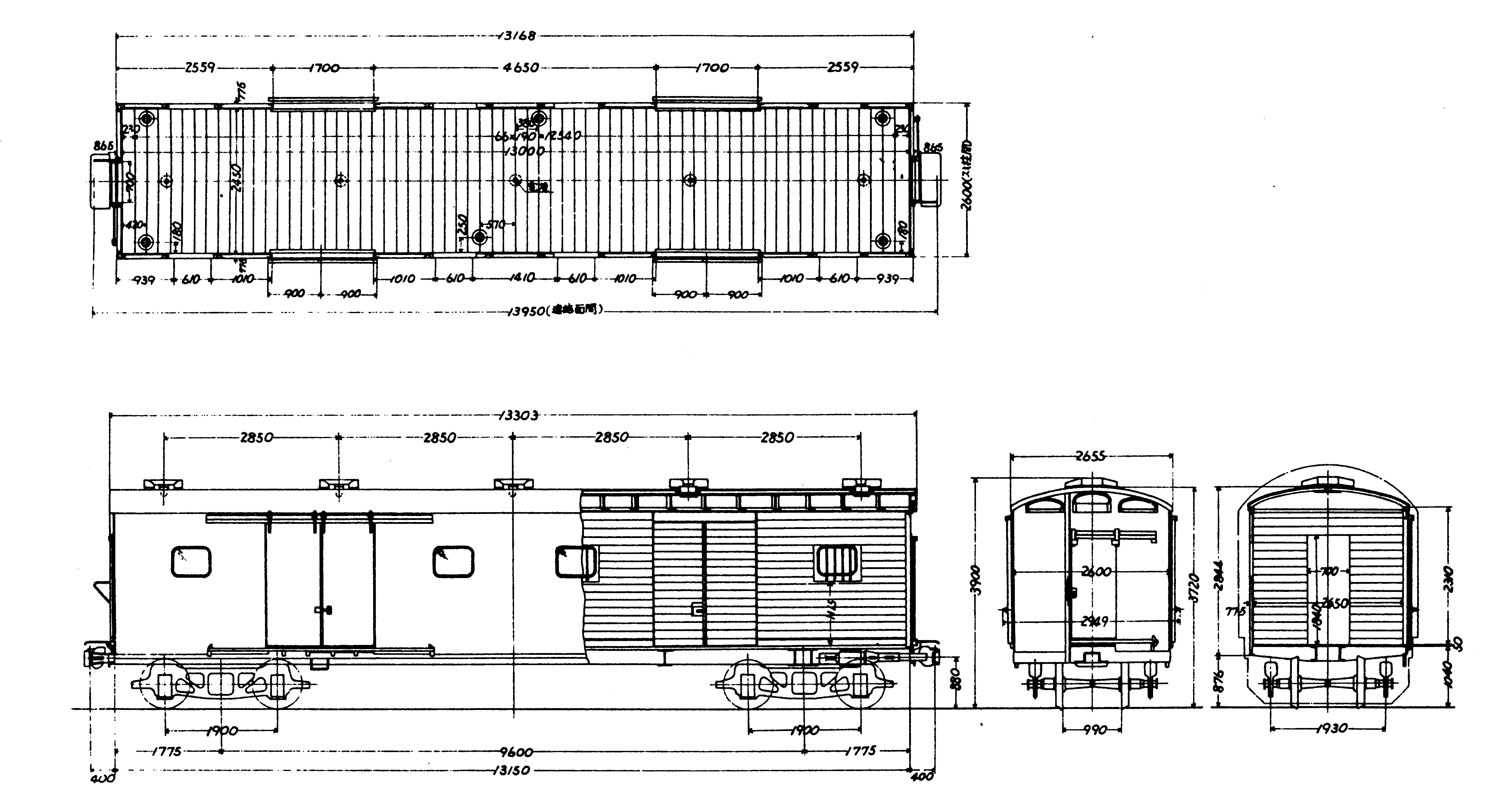 Type drawing of JNR's Class Waki1 freight car (type4)